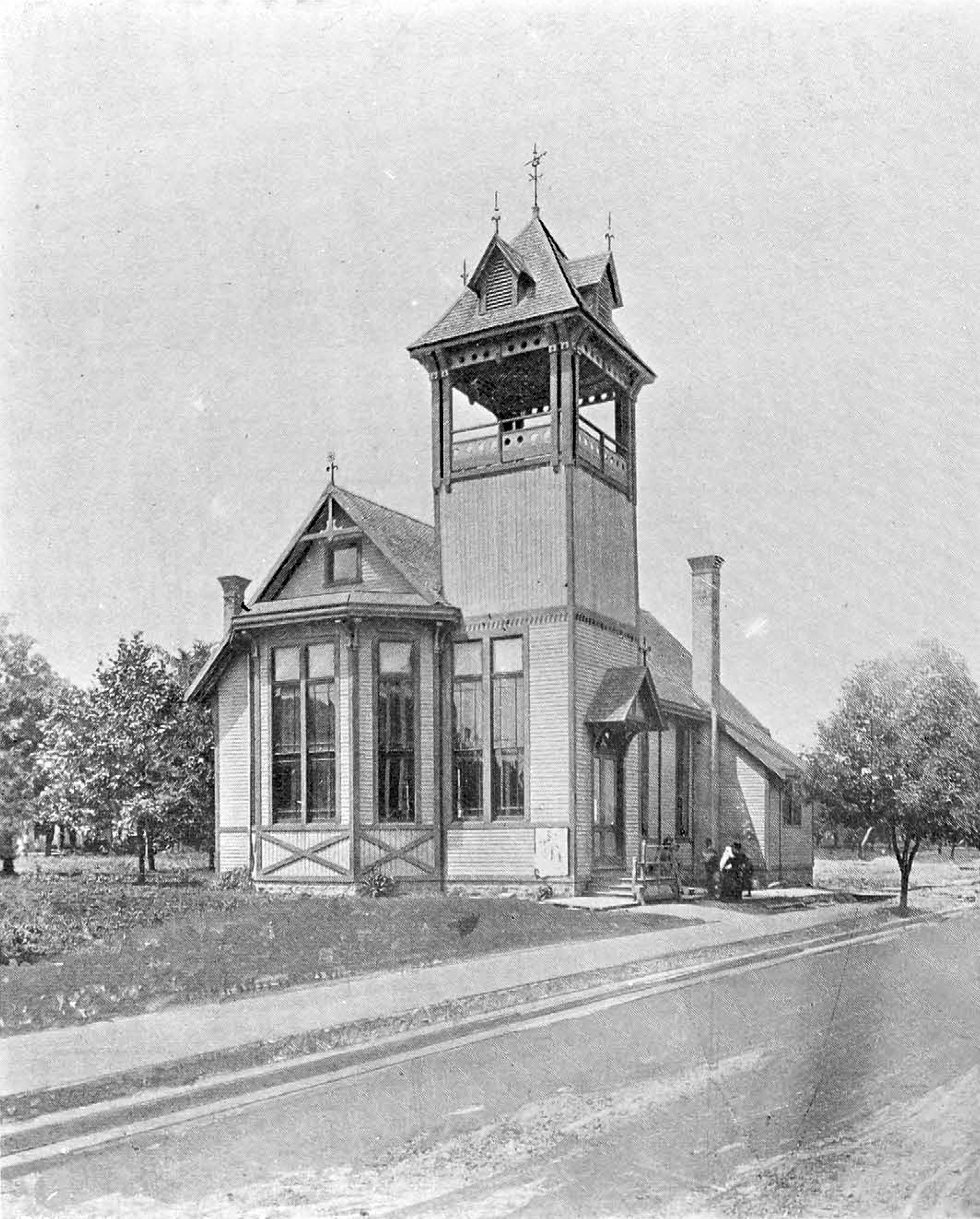 The first Town Hall in Norwood, Ohio was built in 1882, prior to the incorporation of Norwood as a village. It later served as the first City Hall until it was replaced by the current Norwood Municipal Building in 1916. It was located at the southwest corner of Montgomery Road and Elm Avenue at the same location as the current Norwood City Hall (Norwood Municipal Building).